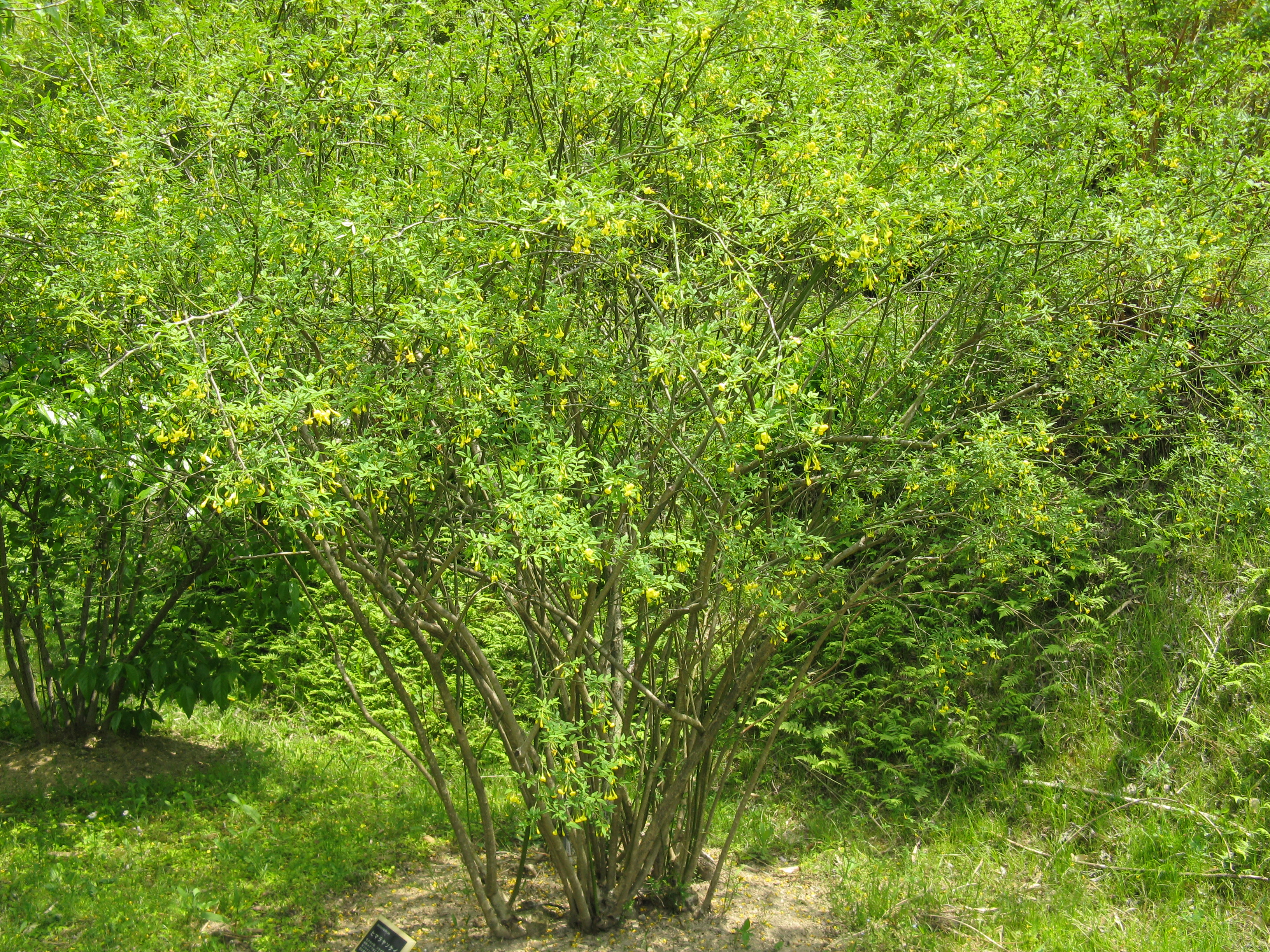 Scientific name Jasminum humile